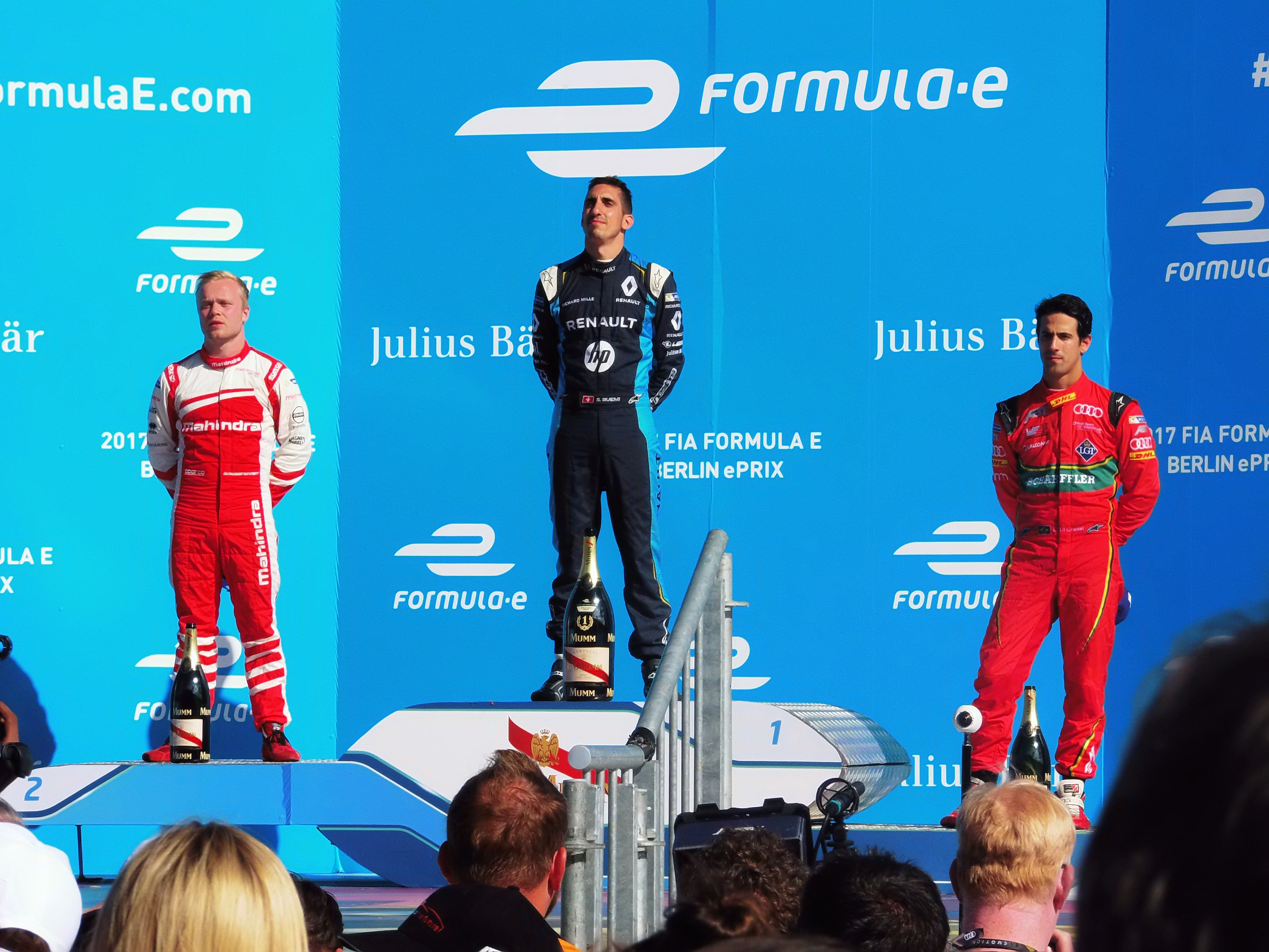 Felix Rosenqvist, Sébastien Buemi and Lucas di Grassi (left to right) at the podium ceremony after the second race of the 2017 Berlin ePrix